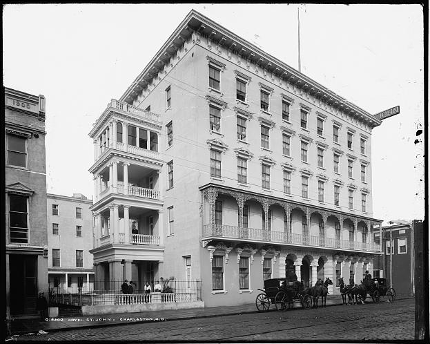 The St. Johns Hotel was razed in the 1960s and replaced with a facsimile now known as the Mills House Hotel at 115 Meeting St., Charleston, South Carolina.